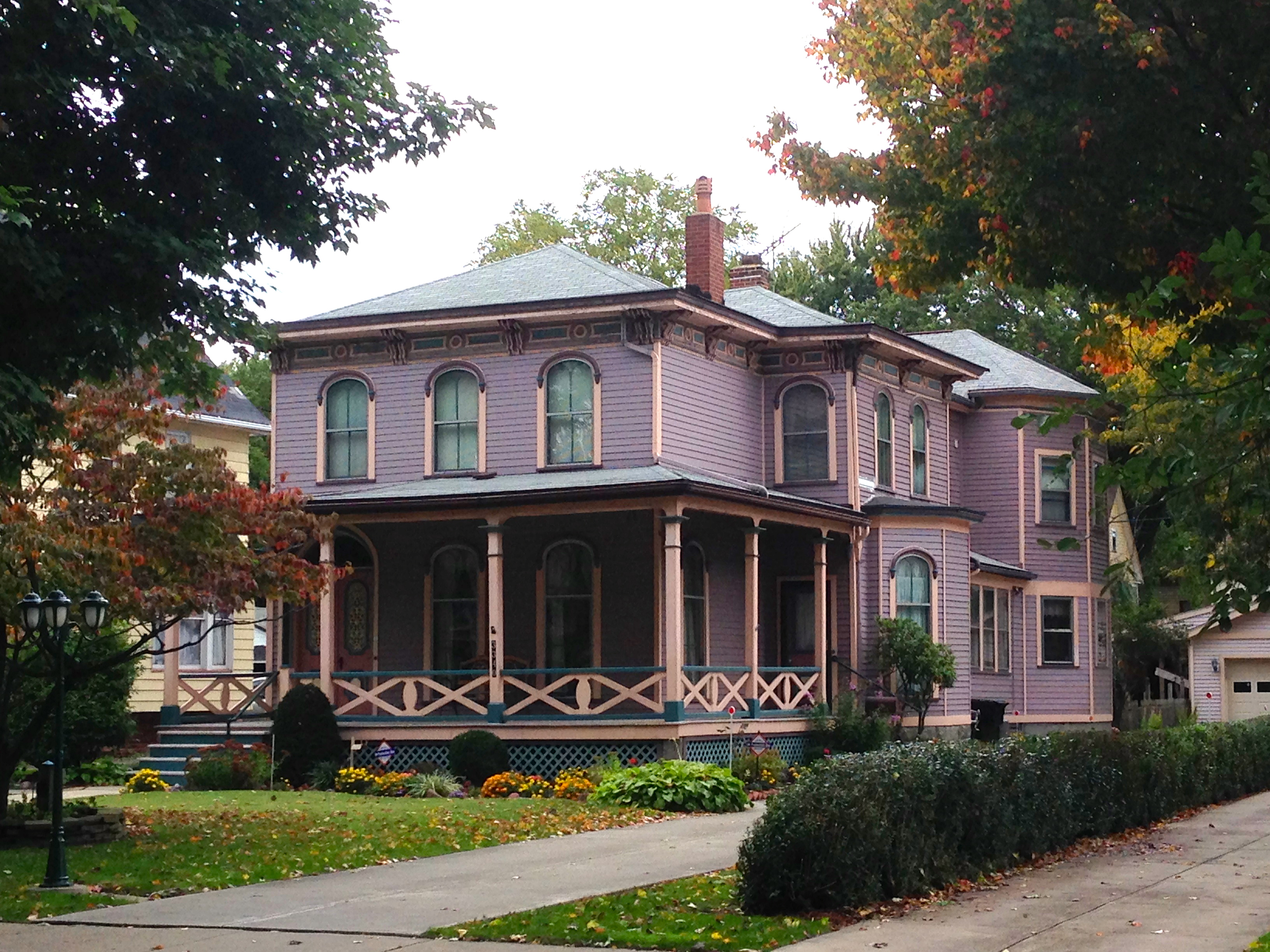 3340 Archwood Avenue Cleveland Ohio c1870 wood-frame, Italianate architecture Brooklyn Centre Historic District, Roughly bounded by Interstate 71, Pearl Rd., and Big Creek Valley